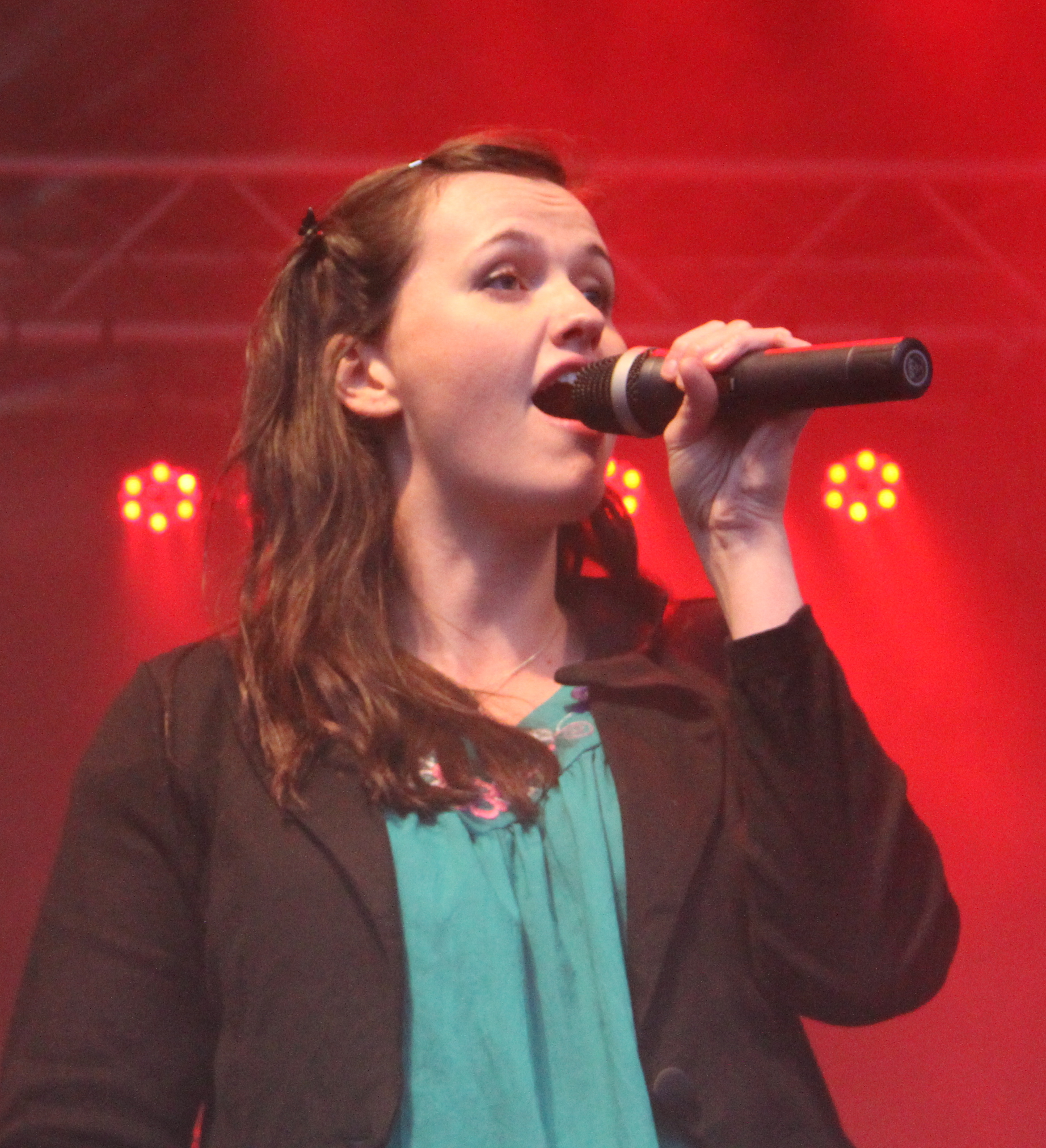 Icelandic singer Ragnheiður Gröndal is one of these remarkable voices of Iceland.